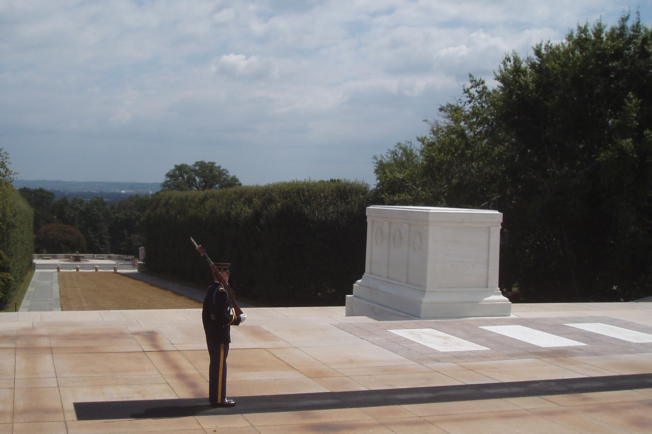 Tomb of the Unknowns, Arlington National Cemetery